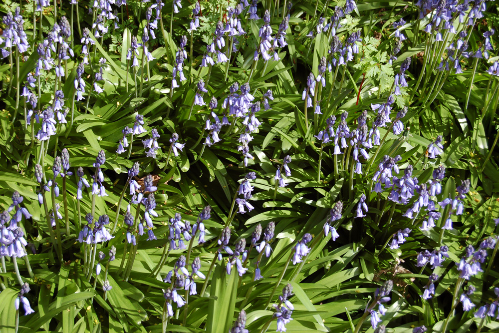 Field of Hyacinthoides × massartiana (Hyacinthoides non-scripta × Hyacinthoides hispanica)